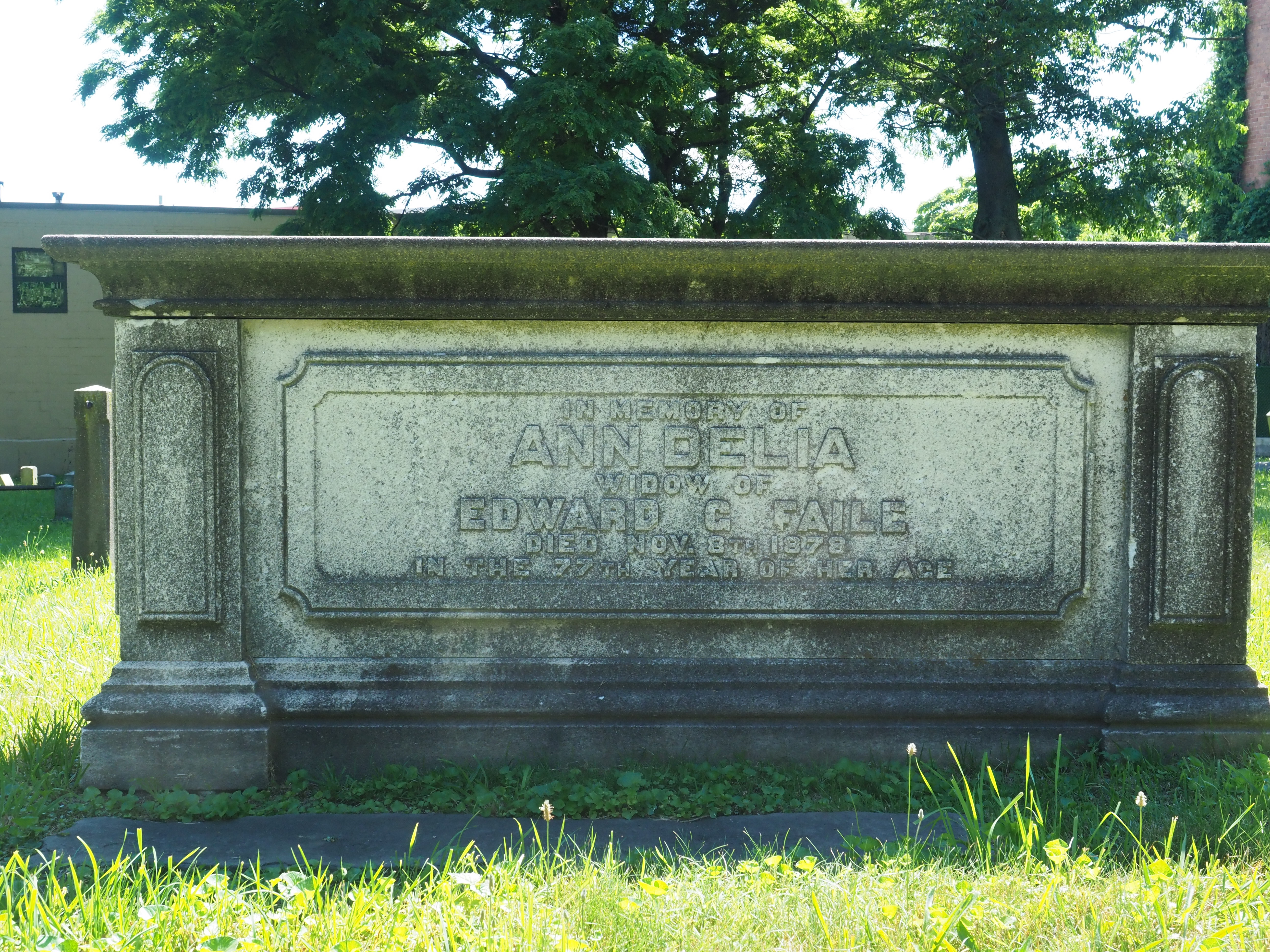 In memory of Ann Delia widow of Edward G Faile Died Nov. 8th 1878 In the 77th year of her age